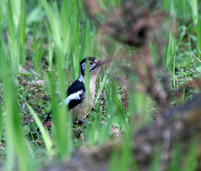 Himalayan Woodpecker Dendrocopos himalayensis in Kullu District of Himachal Pradesh, India.